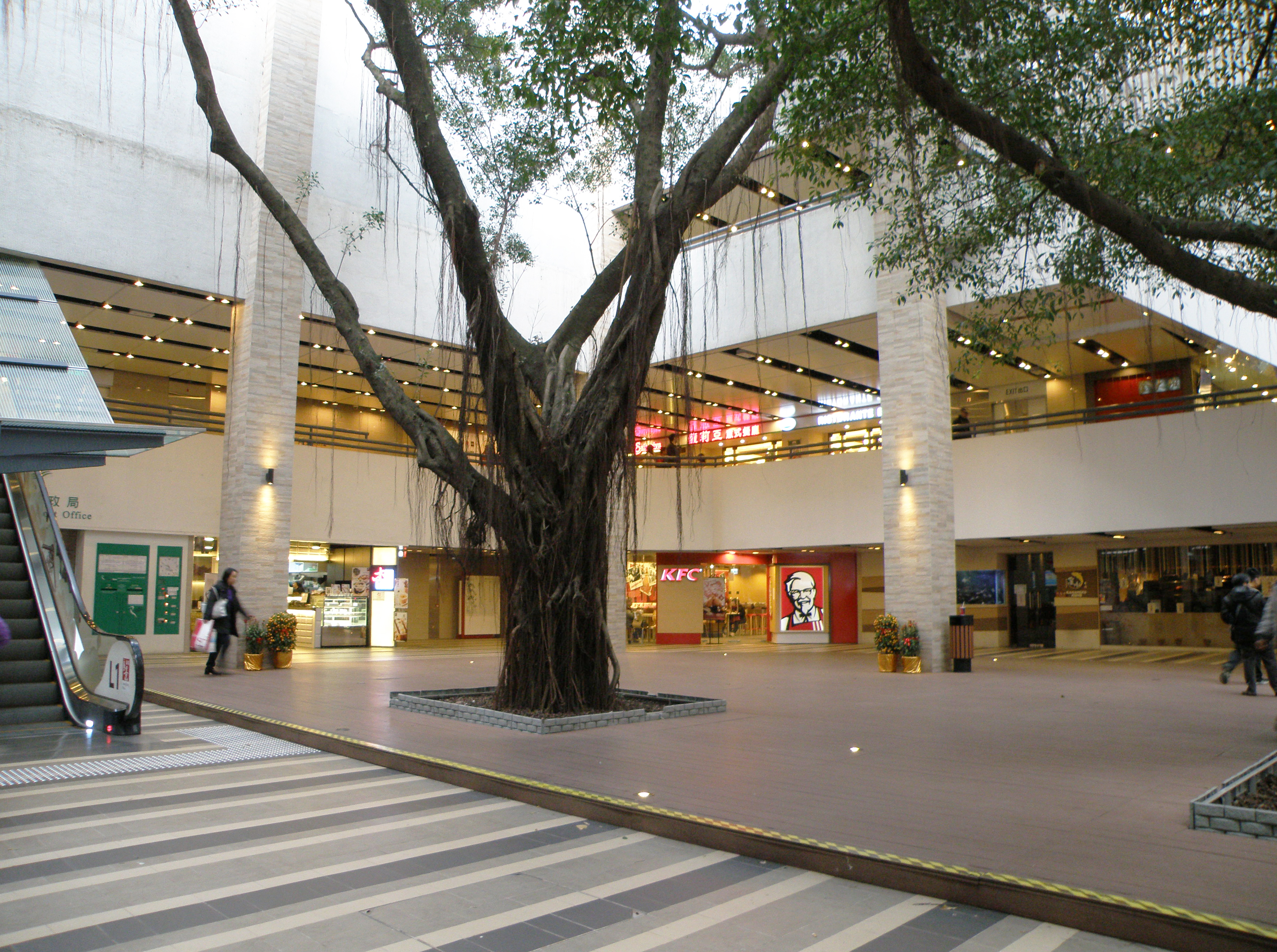 Leung King Plaza in Tuen Mun, Hong Kong.